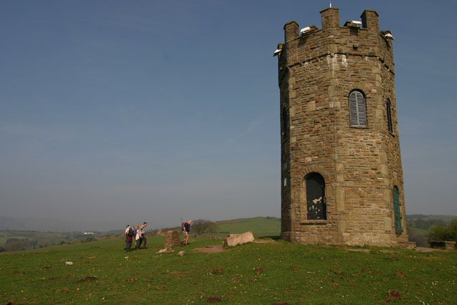 Folly